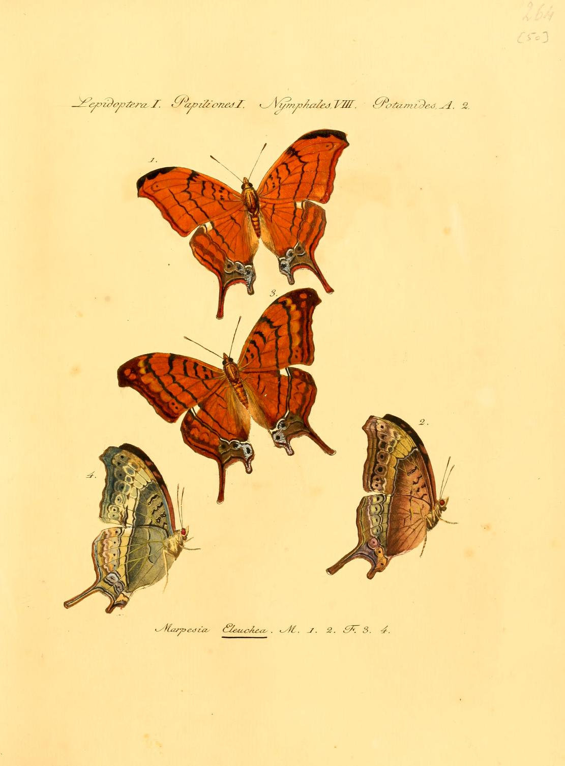 Jacob Hübner Sammlung exotischer Schmetterlinge Vol. 2 ([1819] - [1827] Plate 50 Marpesia eleuchea Hübner, 1818